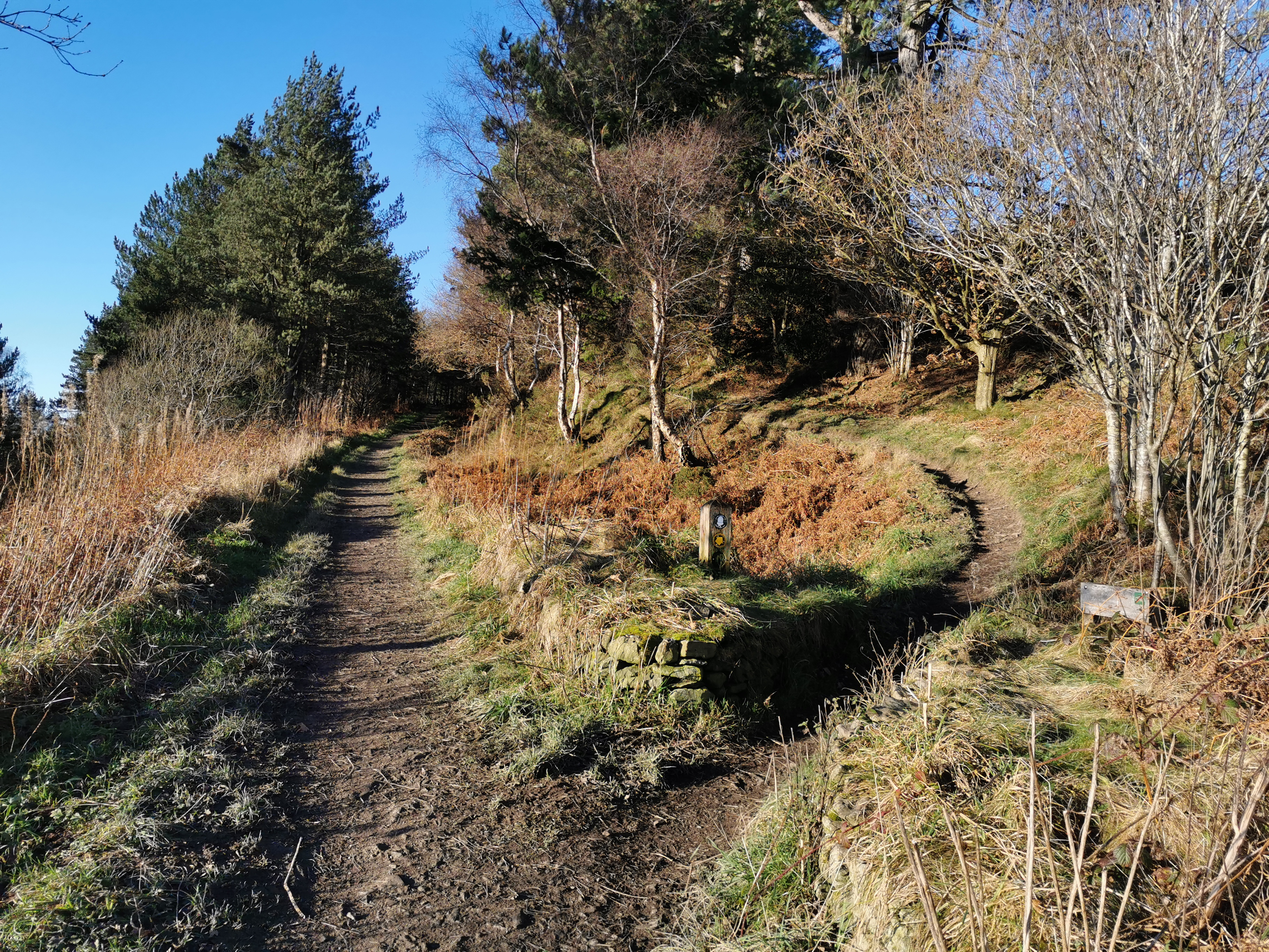 The junction of two footpaths on Penycloddiau, one of which is Offa's Dyke.